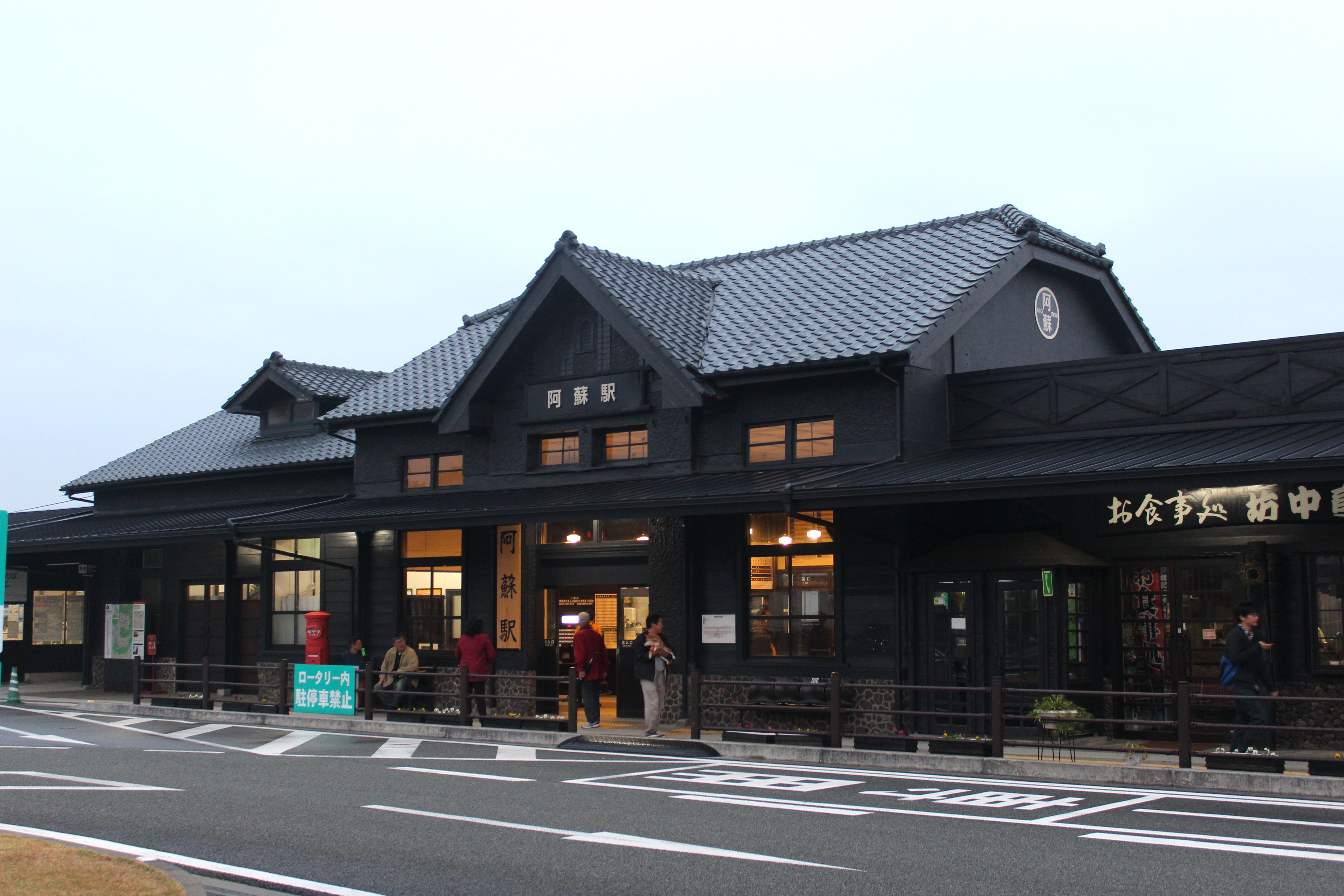 Aso Station in Kumamoto Prefecture, Japan